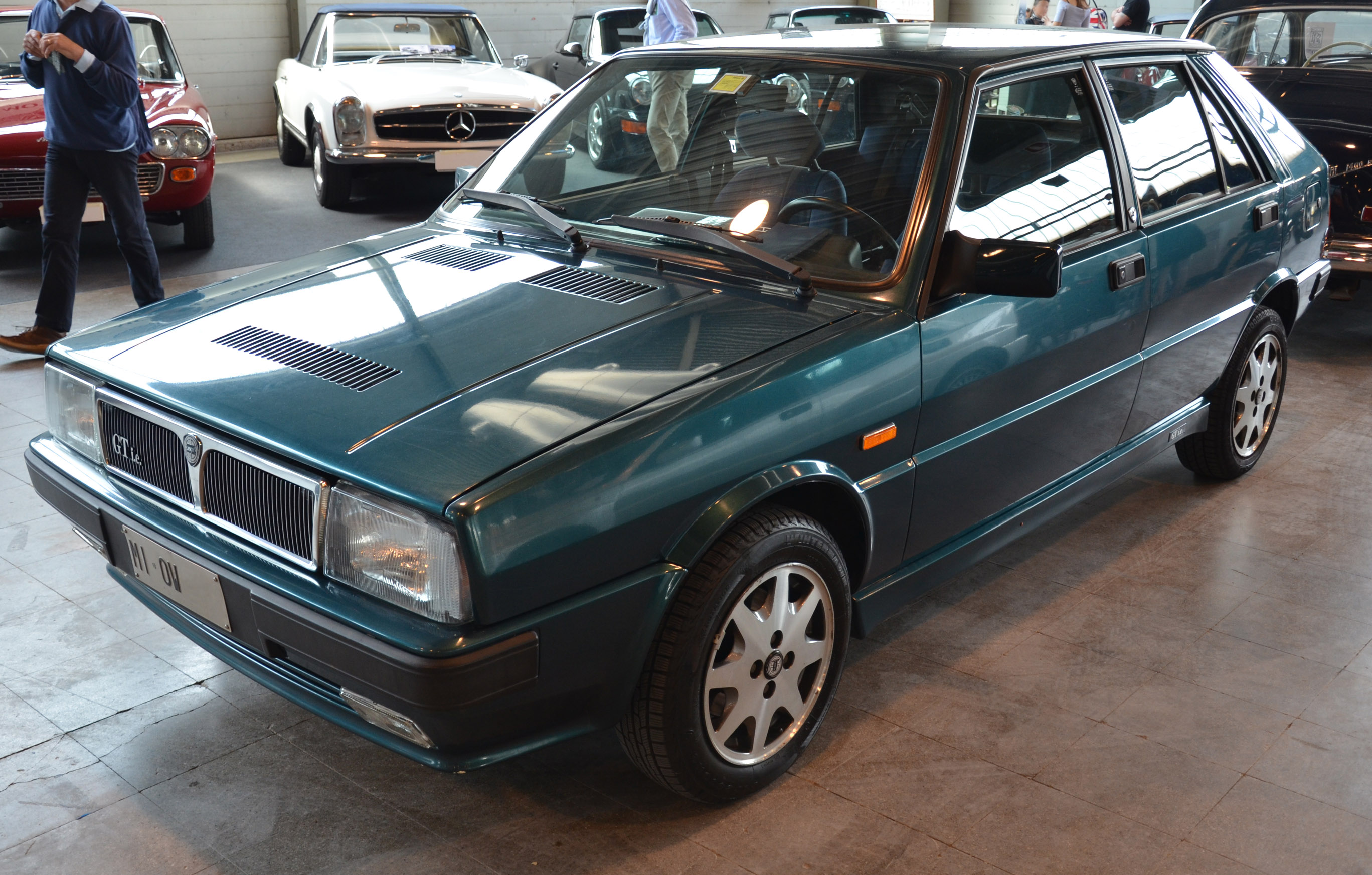 1992 Lancia Delta GT i.e., photographed at Verona Legend Cars 2015.